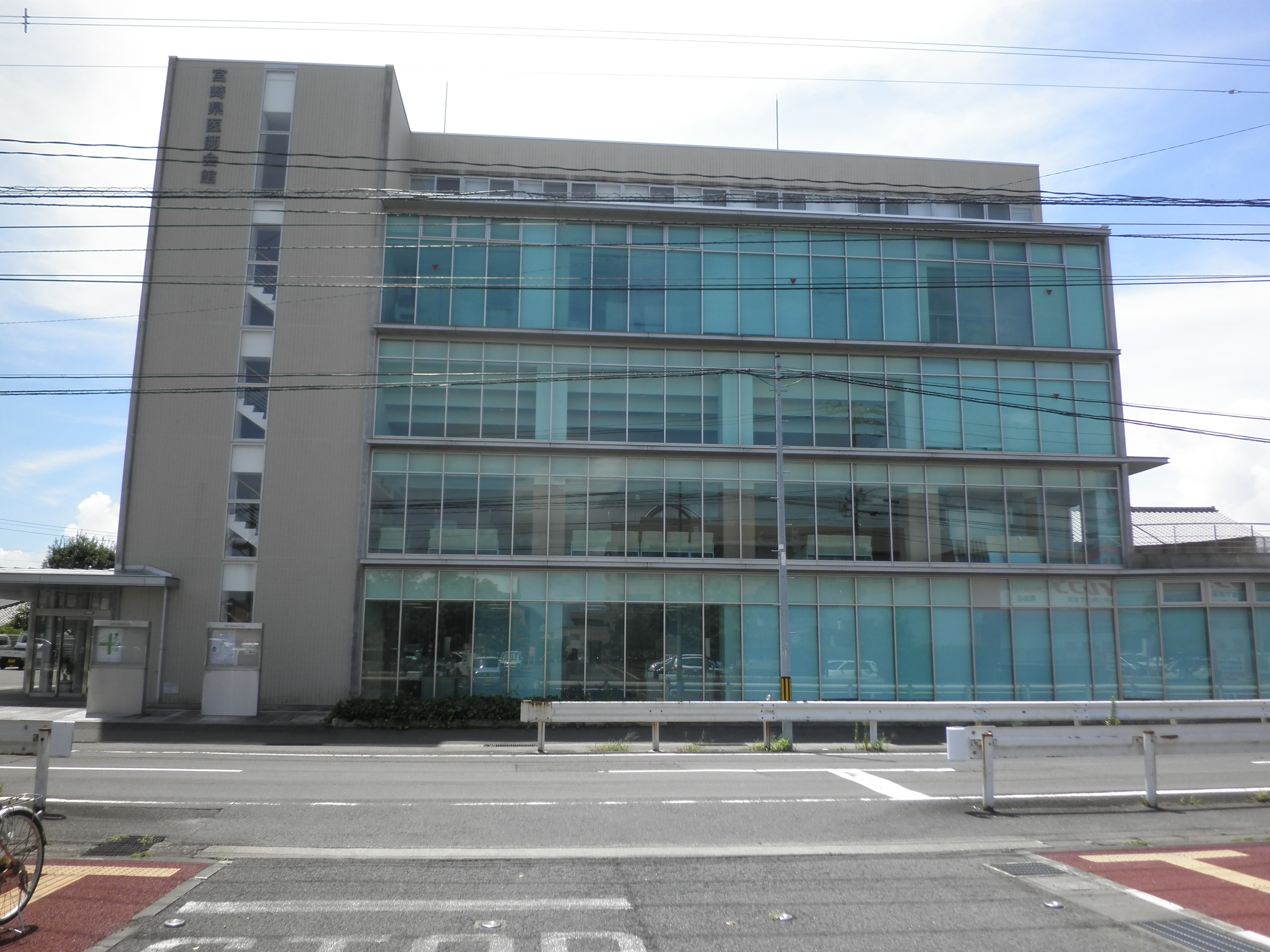 Japan Medical Association in Miyazaki